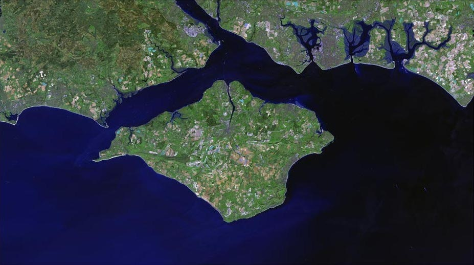 Isle of Wight, United Kingdom, from Space. The raw satellite imagery shown in these images was obtain from NASA and/or the US Geological Survey. Post-processing and production by